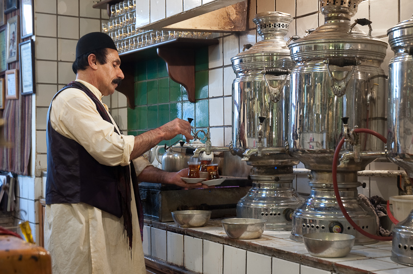 Ghahve Khane Azari-Vali Asr street before Raah Ahan square-Tehran